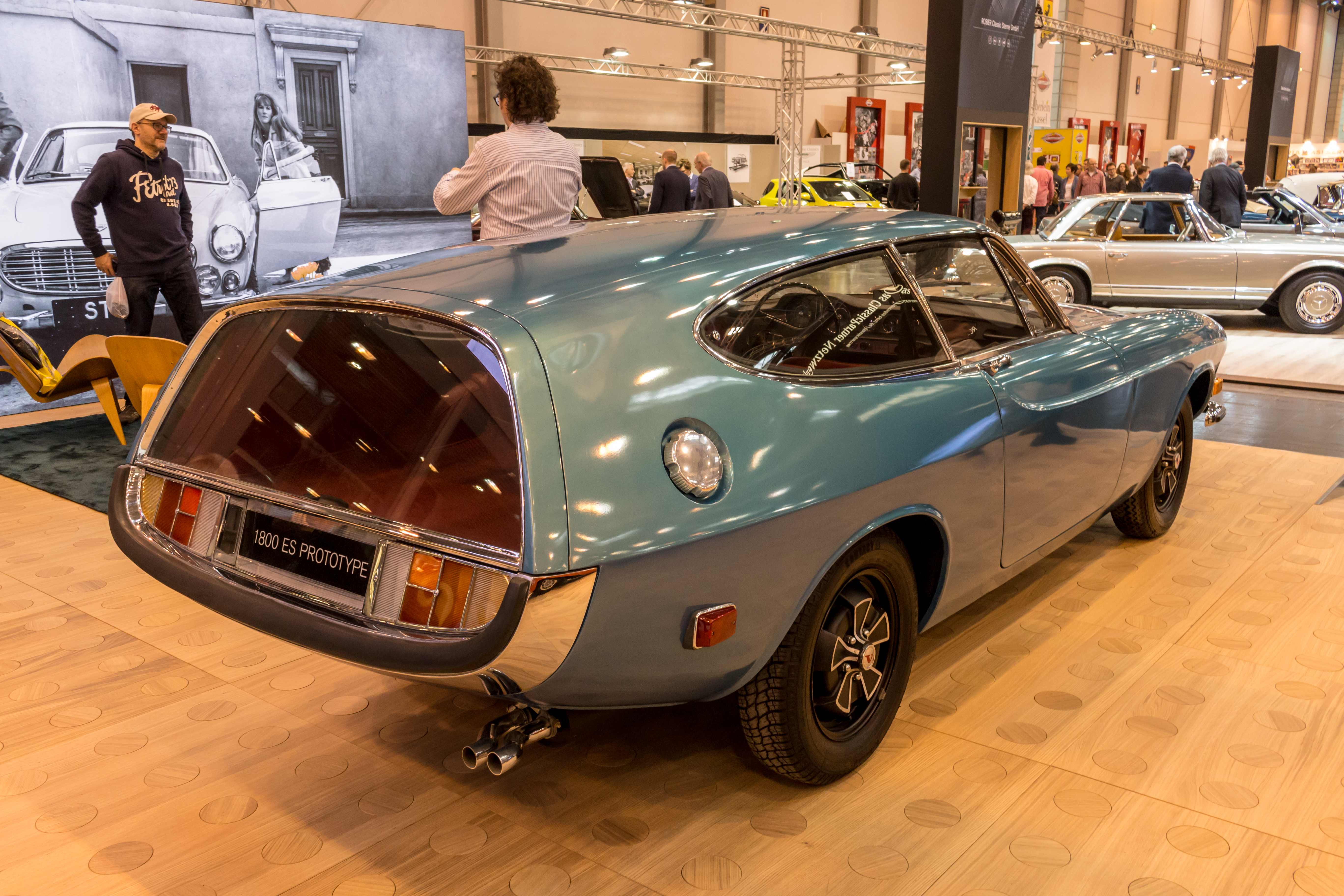 Techno Classica 2018, Essen